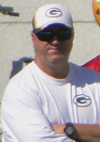 Green Bay Packers quarterbacks coach Alex Van Pelt.